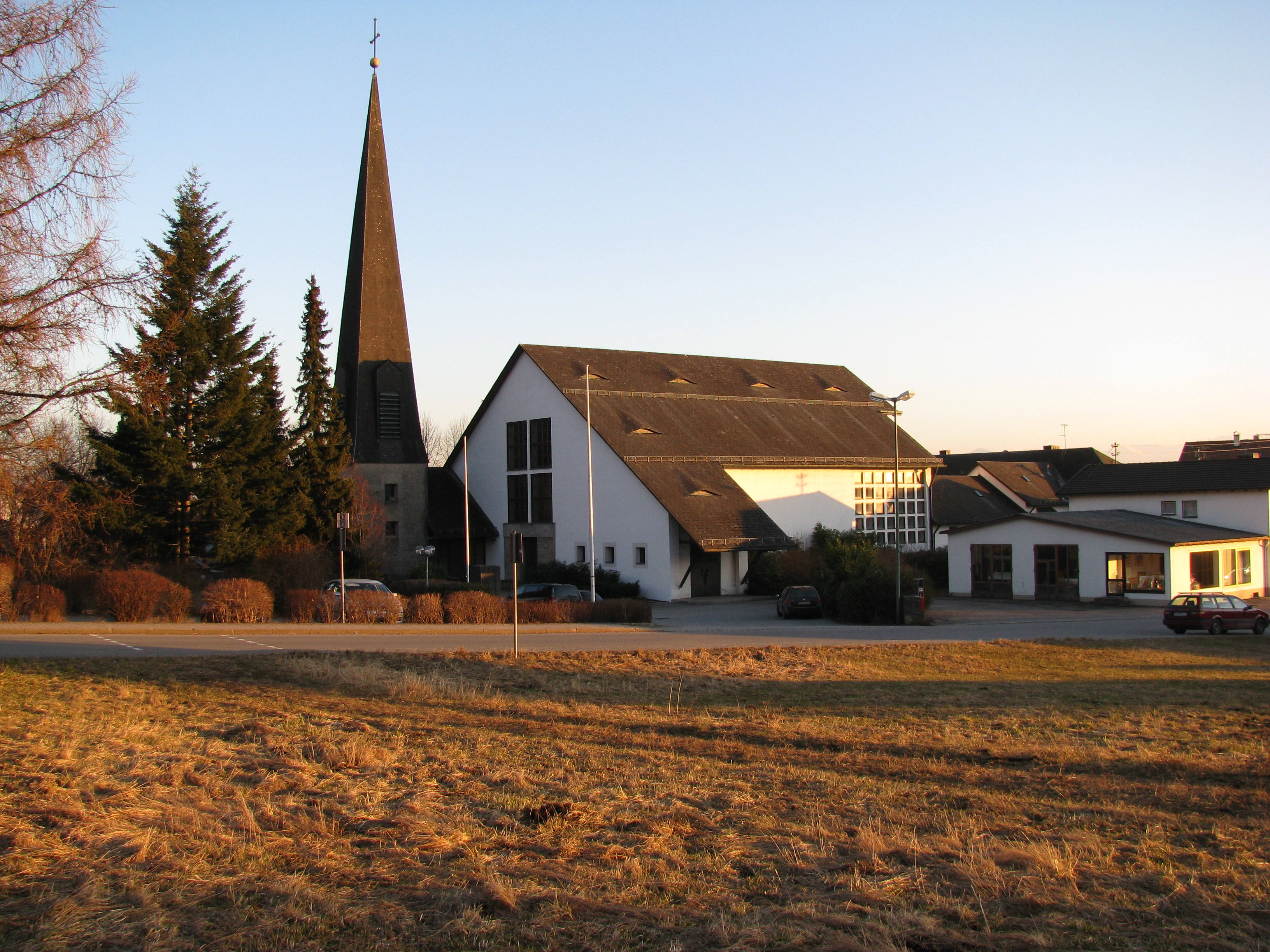 Church in Hohenpeißenberg